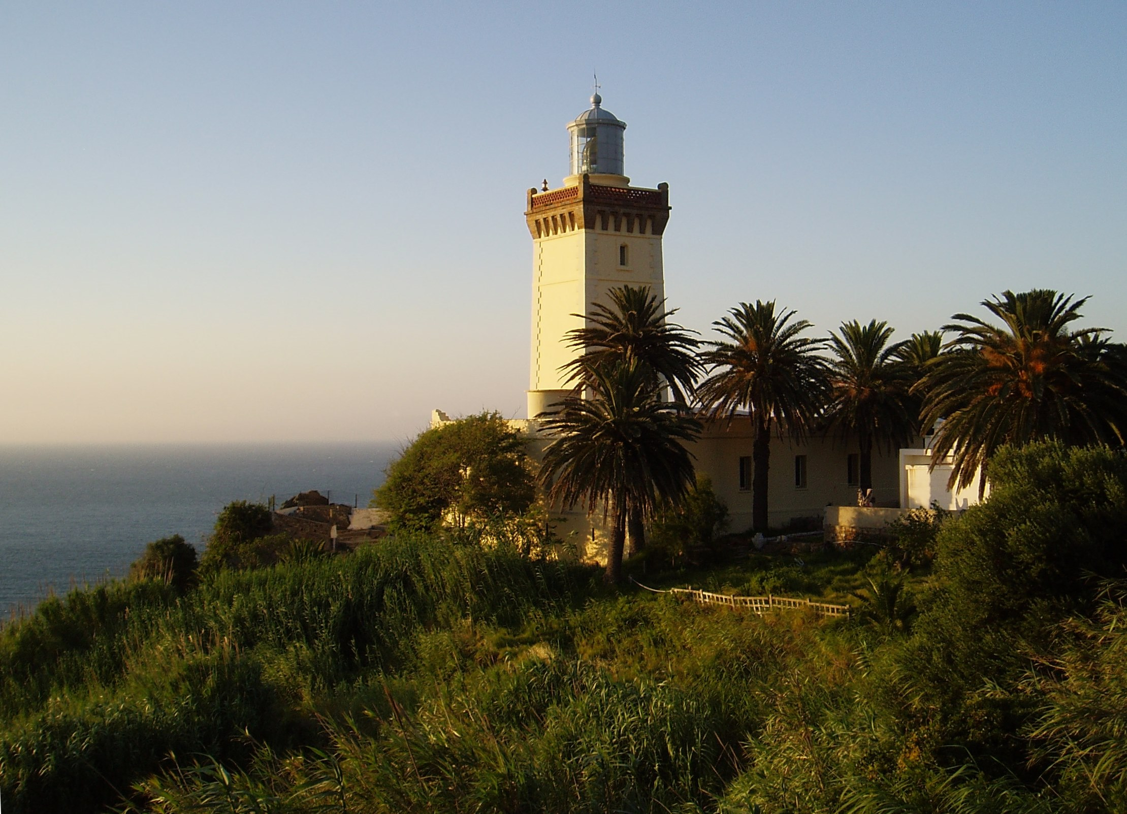 Cap Spartel Faro de Cabo Espartel, Tánger, Marruecos. Este faro junto con el de Tarifa en España, marcan la entrada al Estrecho de Gibraltar y el Mar Mediterráneo. De hecho, el faro marca el límite internacional entre el Océano Atlántico y el Mar Mediterráneo. Cap Spartel lighthouse, Tangier, Morocco. This lighthouse, together with Tarifa lighthouse in the spanish coast, mark the entrance to Gibrlatar Strait and the Mediterranean Sea. In fact, this lighthouse is the international limit between the Atlantic Ocean and the Mediterranean Sea.